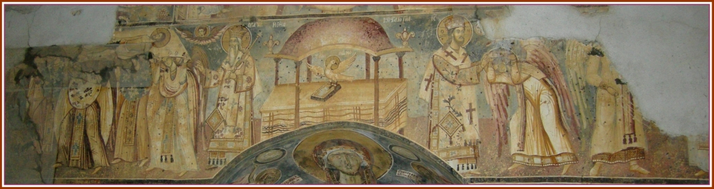 Paintings in Panagia Porfiras Church